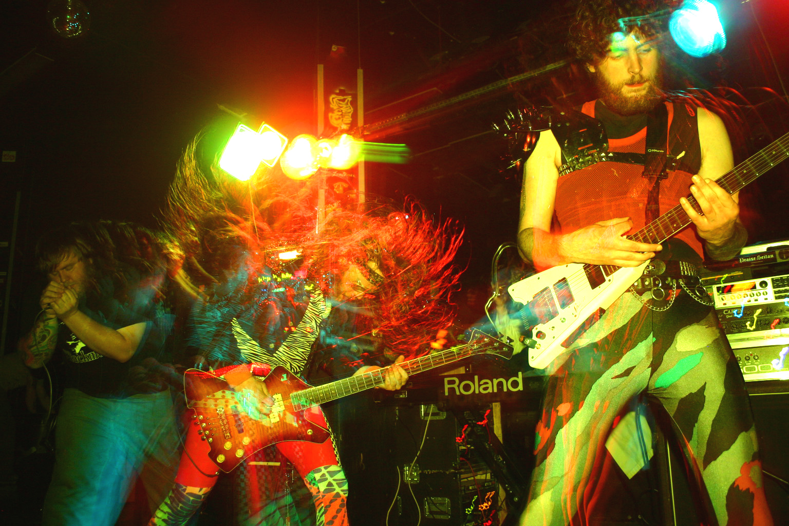 Johnny X and the Groadies at the Satyricon.